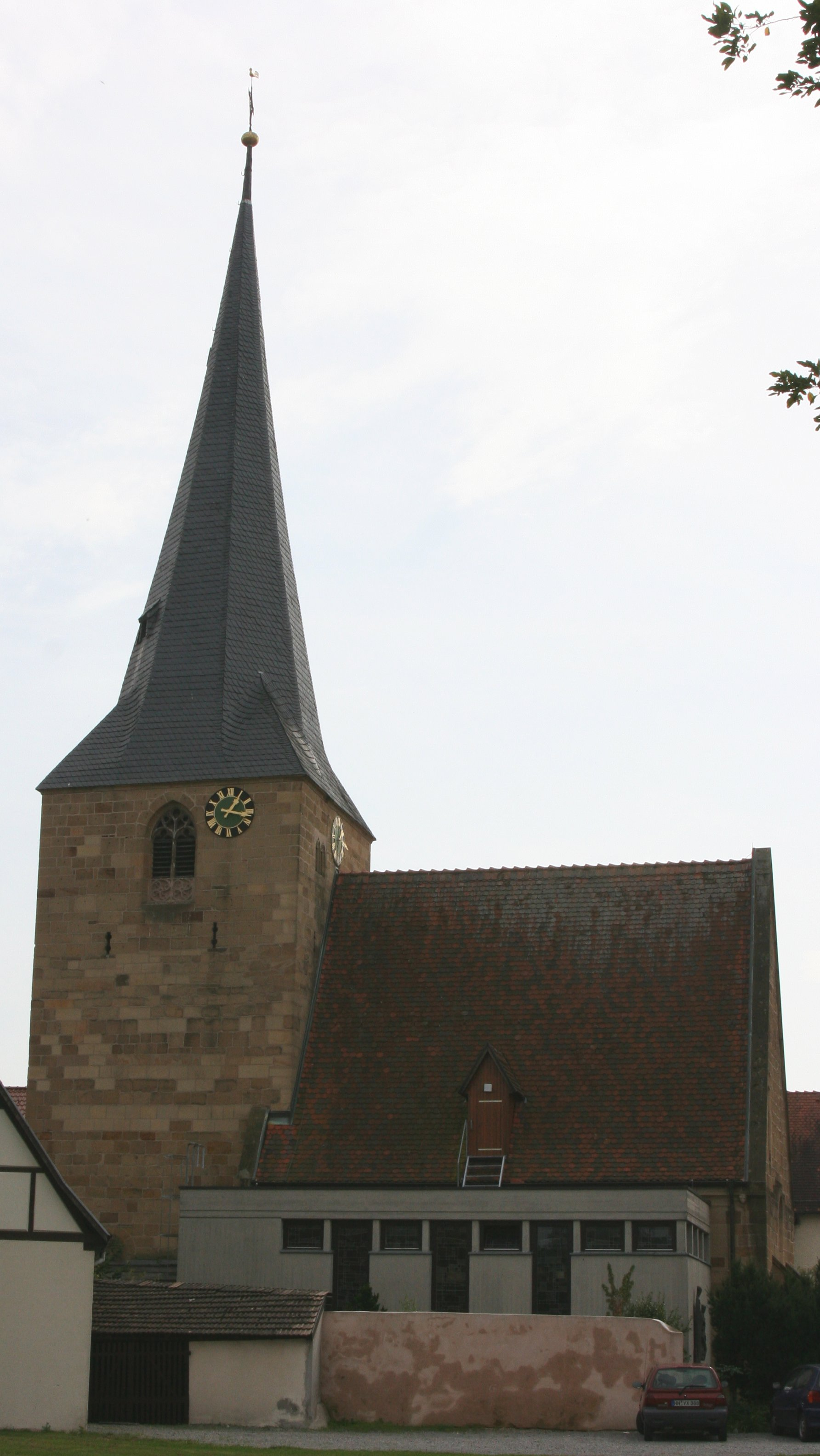 The church of the Holy Cross, Saint Peter and Genovefa in Ellhofen, Germany